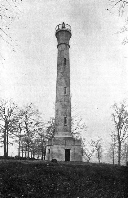 Original caption: Lighthouse on Frenchman's island - one of three lighthouses to mark the sailing courses across Oneida lake. Each lighthouse is about 85 feet high. Those at Sylvan Beach and Frenchman's island display occulting White lights of 1,500 candle power; that at Brewerton carries a fixed red light of 1,000 candle power. (From Annual Report of the State Engineer and Surveyor for the Fiscal Year Ended June 30 1917, following p. 222. Cropped and corrected for color by me.